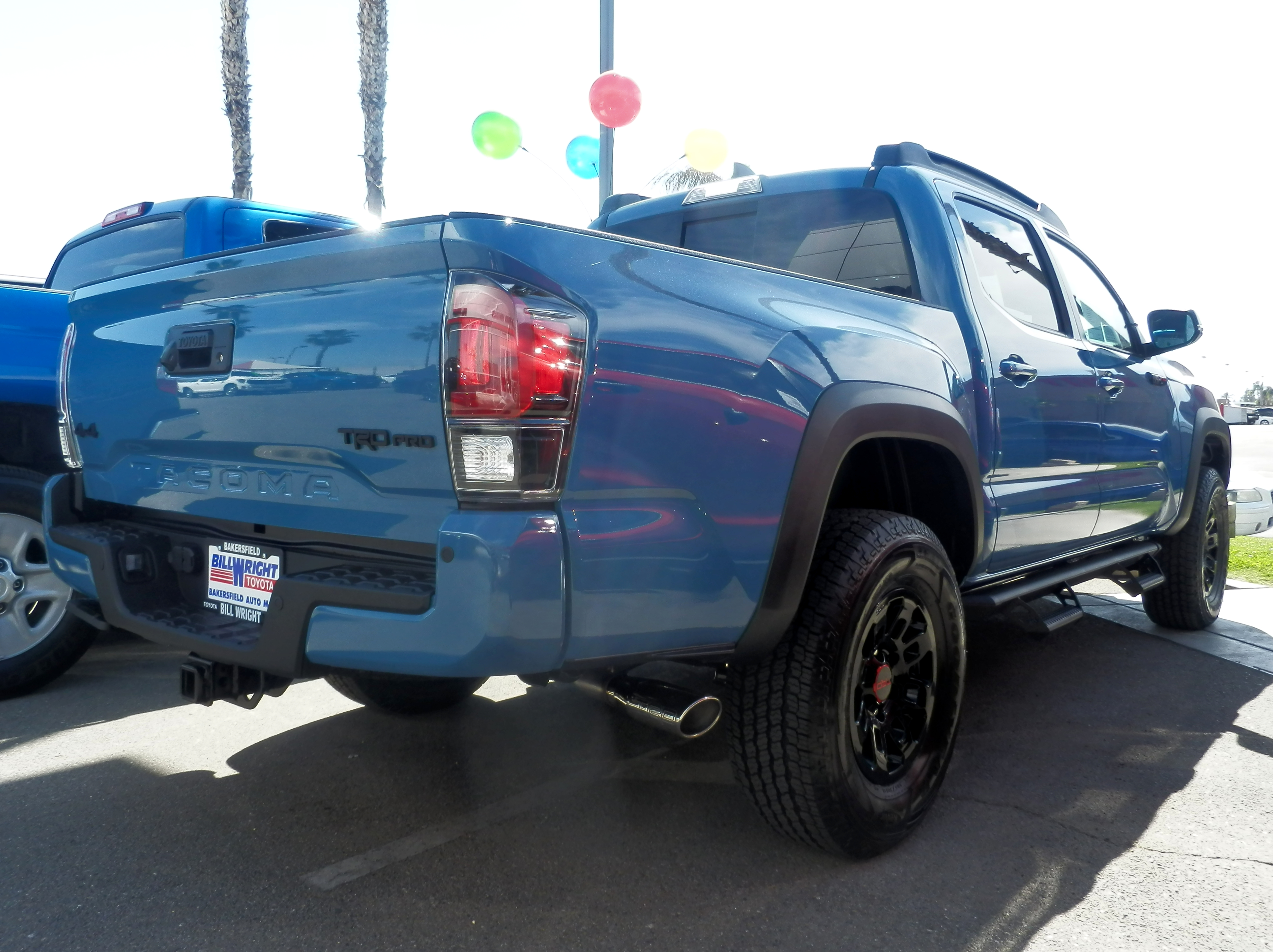 2018 Toyota Tacoma TRD Pro in Bakersfield